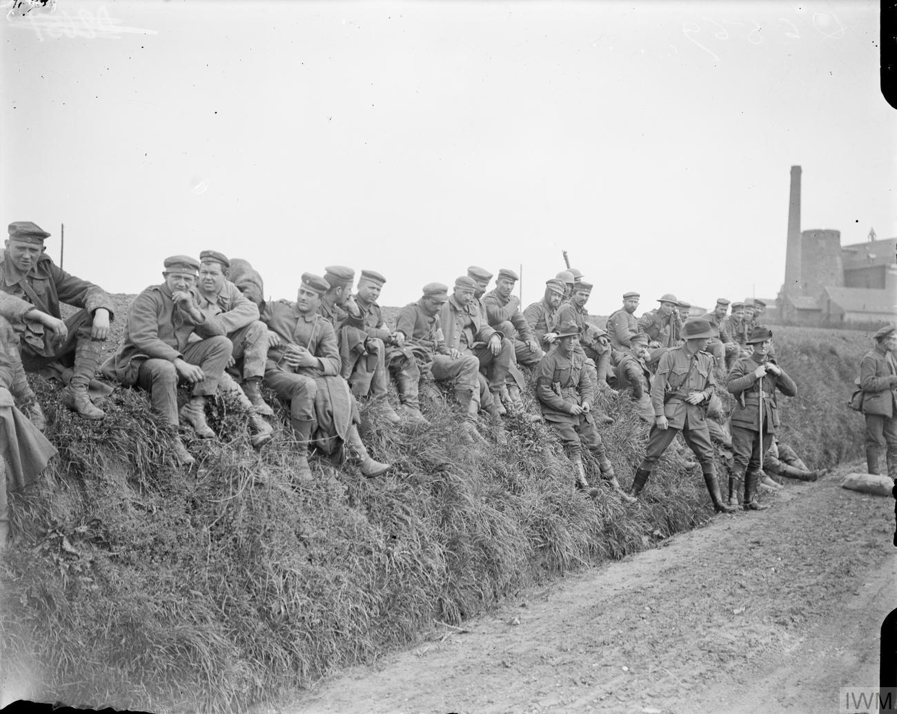 The German Spring Offensive, March-july 1918 The Battle of the Lys (Operation Georgette). German prisoners being guarded by Australian troops. Caestre, 23 April 1918.